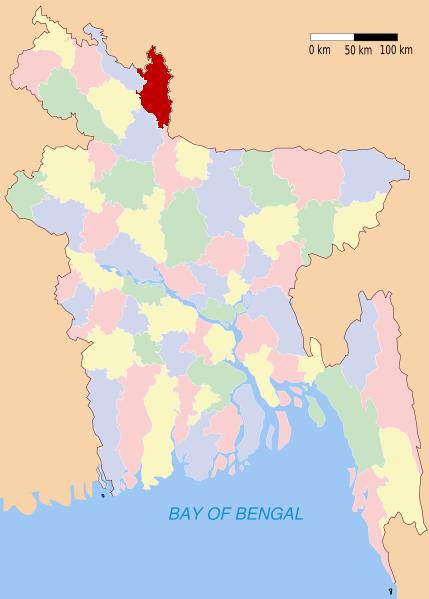 District locator map in red in Bangladesh